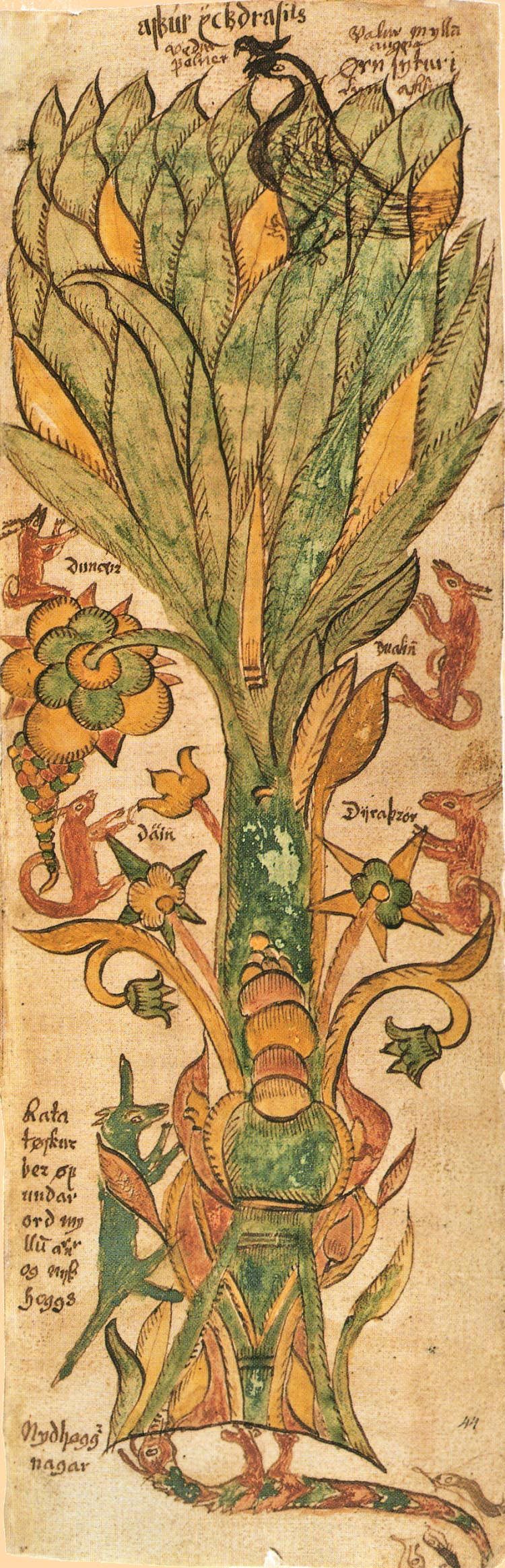 The world tree Yggdrasil with the assorted animals that live in it and on it.